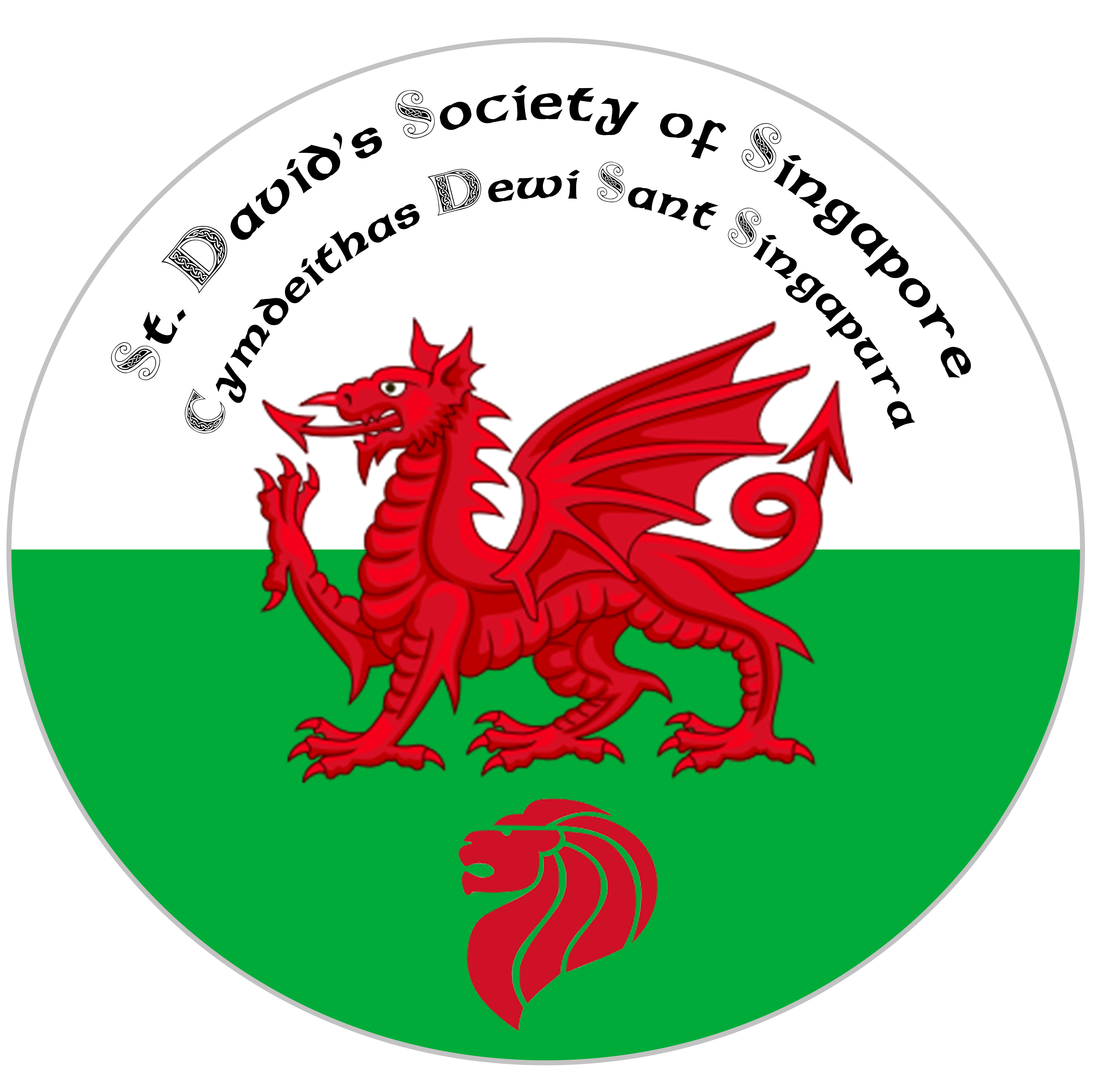 The logo of the St Davids Society of Singapore.